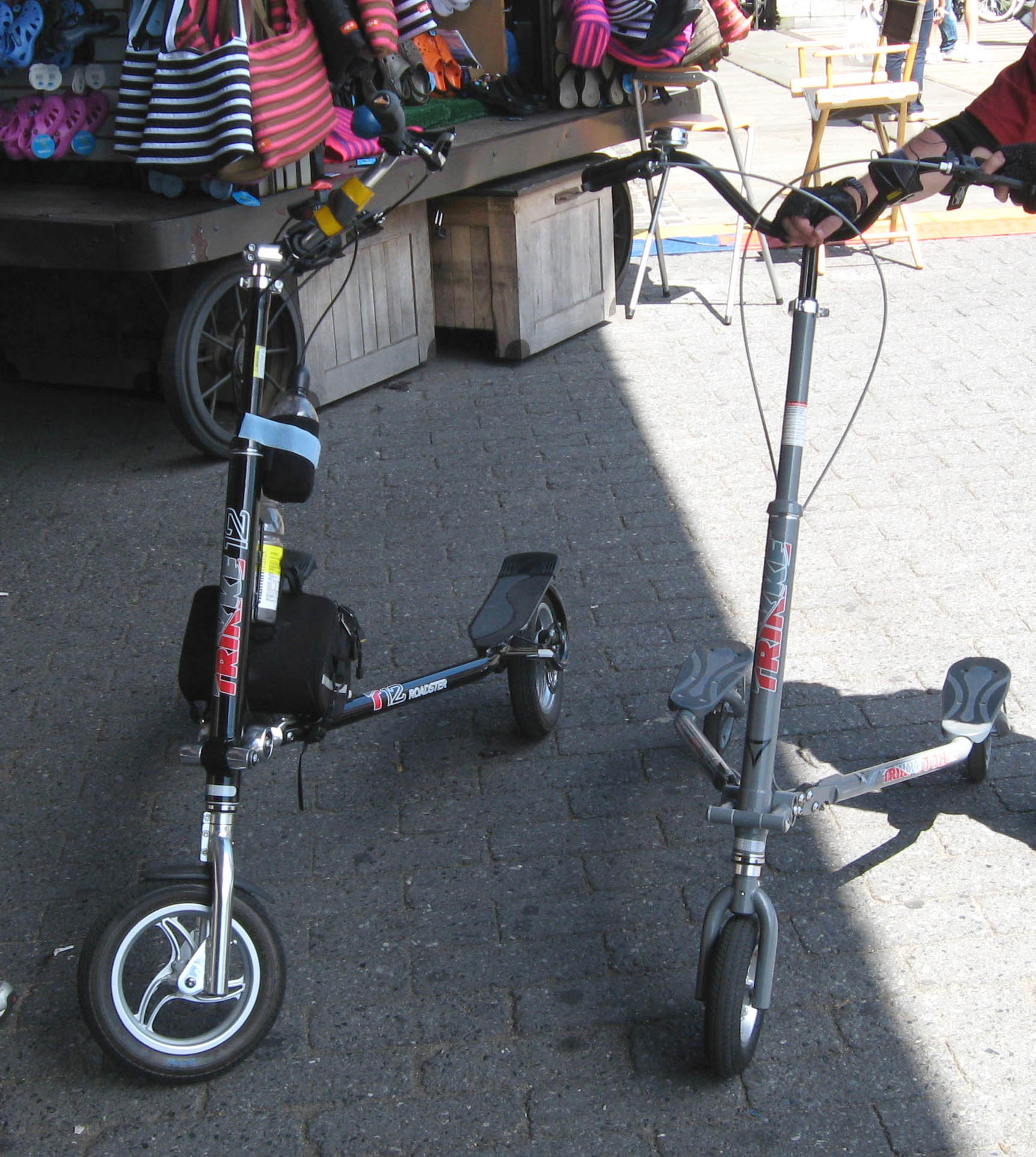 Looking northeast under FDR Drive, downriver from South Street Seaport, at two Trikkes on a sunny midday.